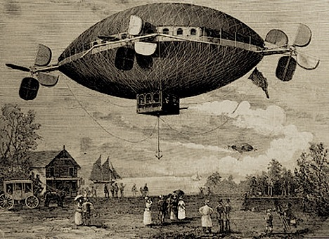 Sketch of Moses S. Coles "Aerial Vessel" (US Patent No. 352298, November 9, 1886)